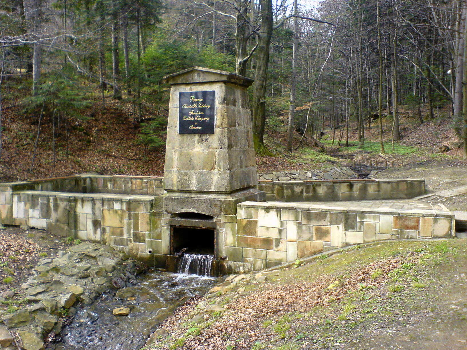 Iwonicz-Zdrój - weir on Bełkotka stream with a commemorative plaque dedicated to earl Karol Załuski, founder of the spa facility in Iwonicz